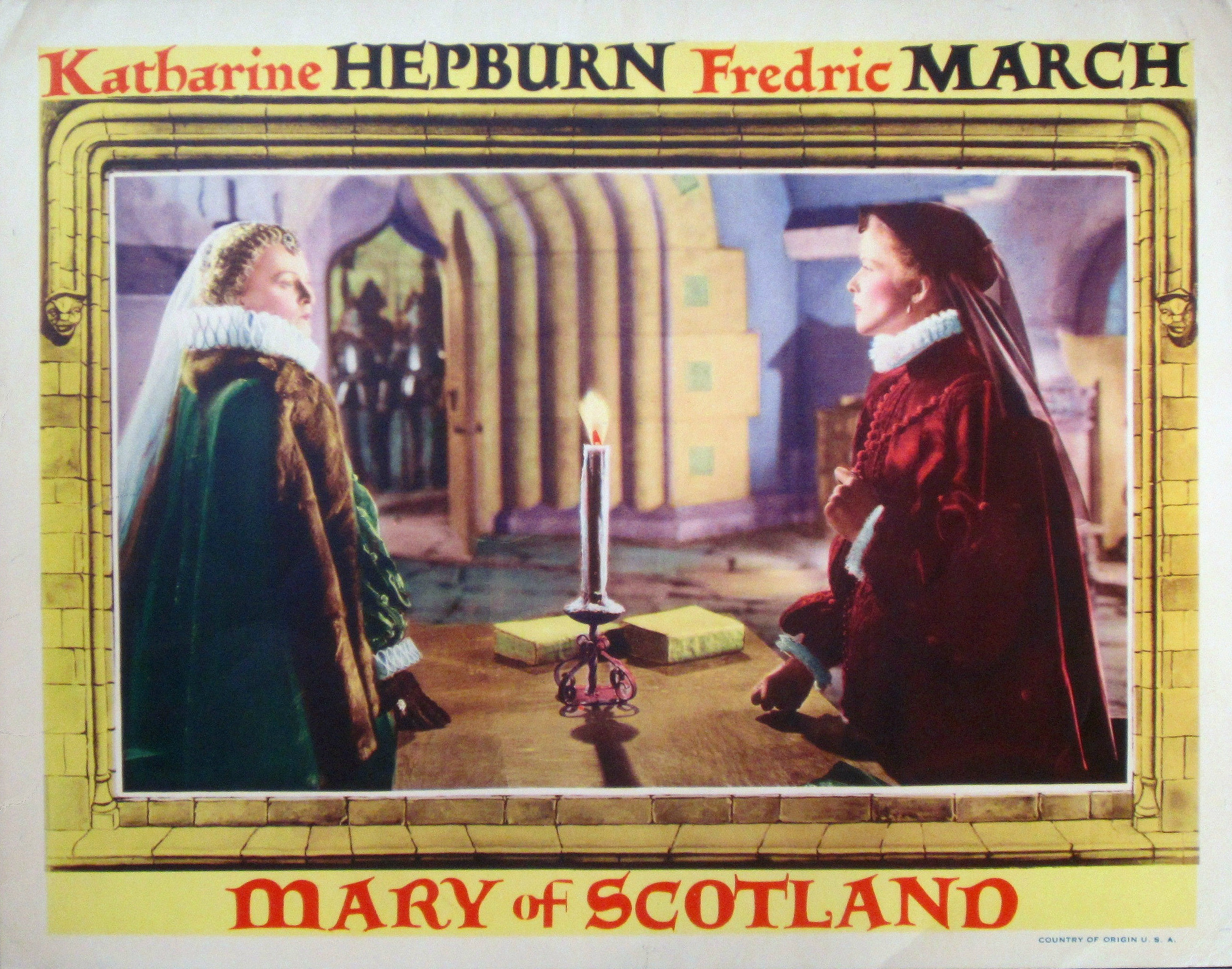 Lobby card for the American drama film Mary of Scotland (1936).